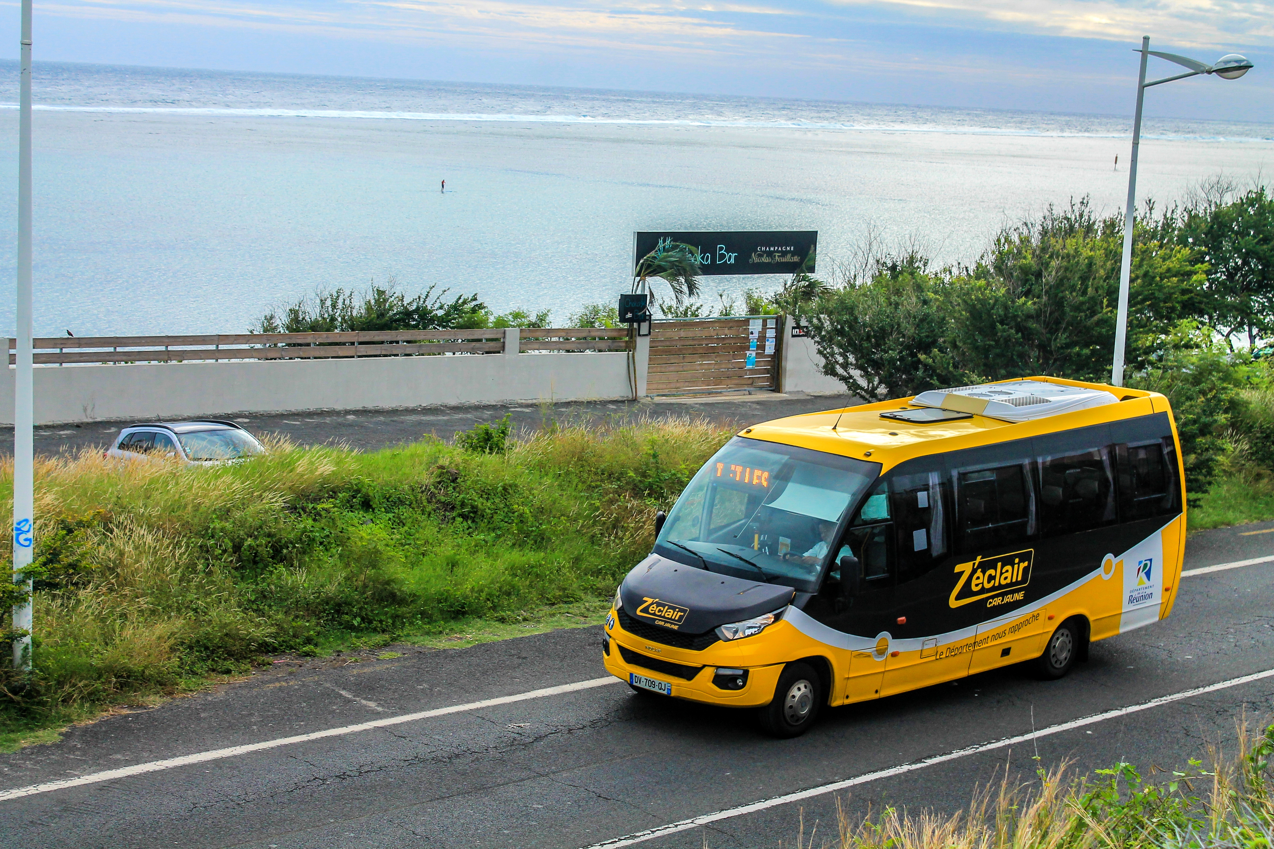 INDCAR Wing Car Jaune